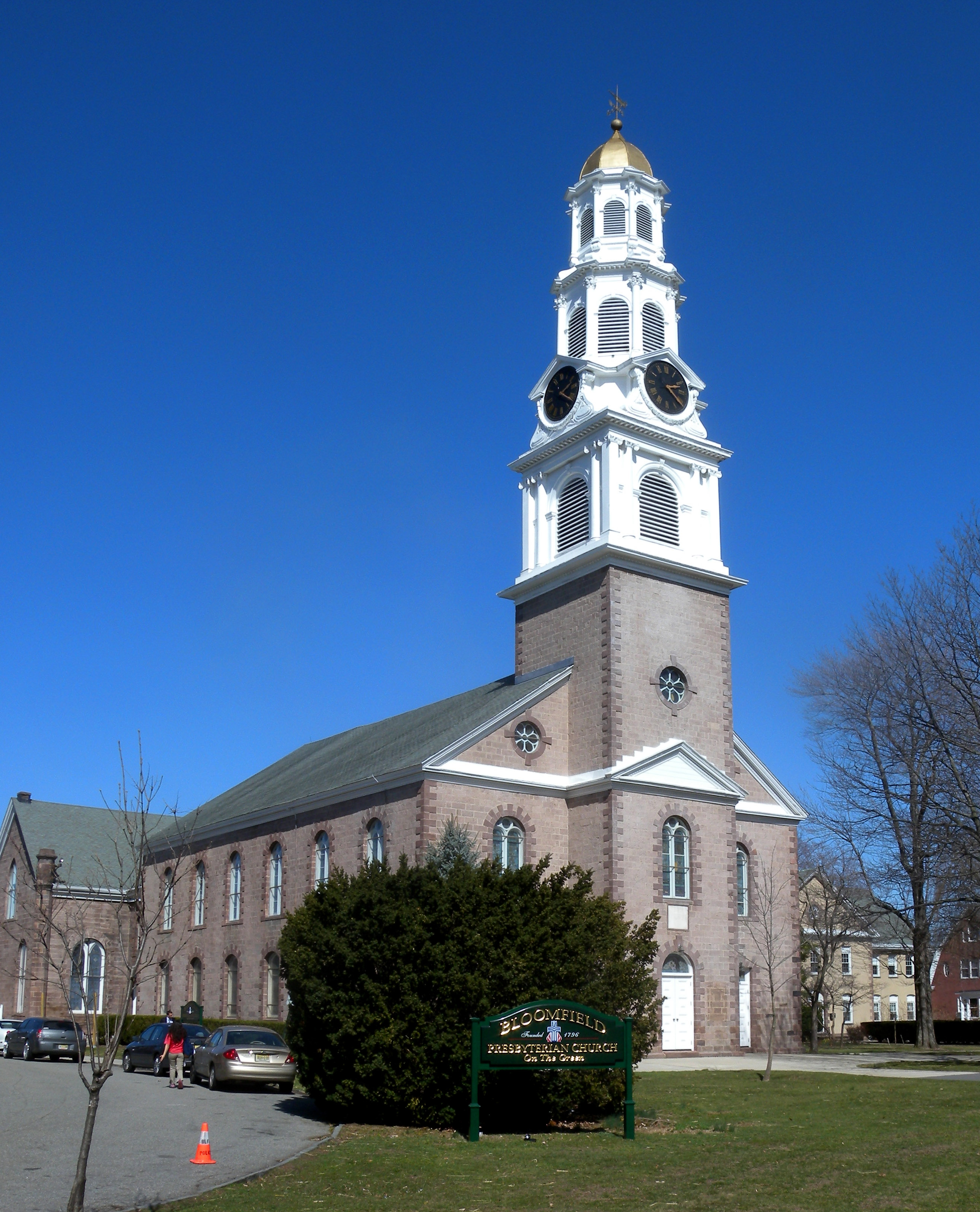 Looking northeast at Bloomfield Presbyterian on a sunny midday.